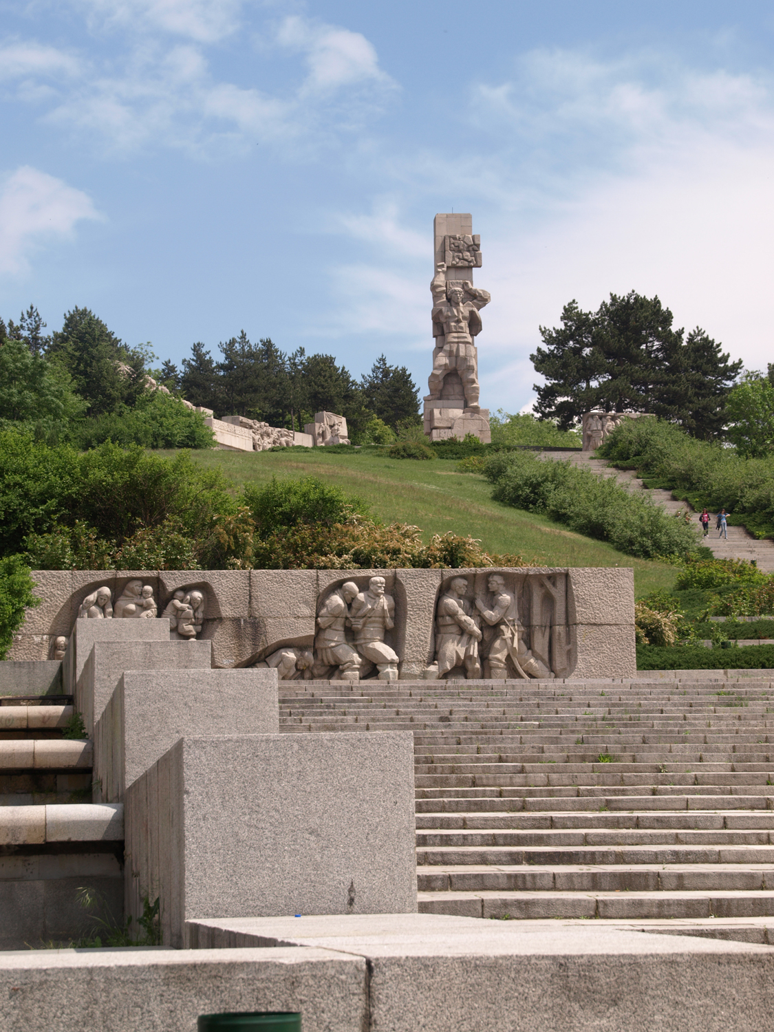 Apriltsi National Memorial Complex, Panagyurishte, Bulgaria